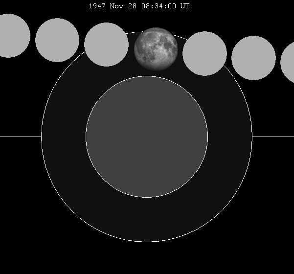 Lunar eclipse chart of moon's path through the earth's shadow. thumb